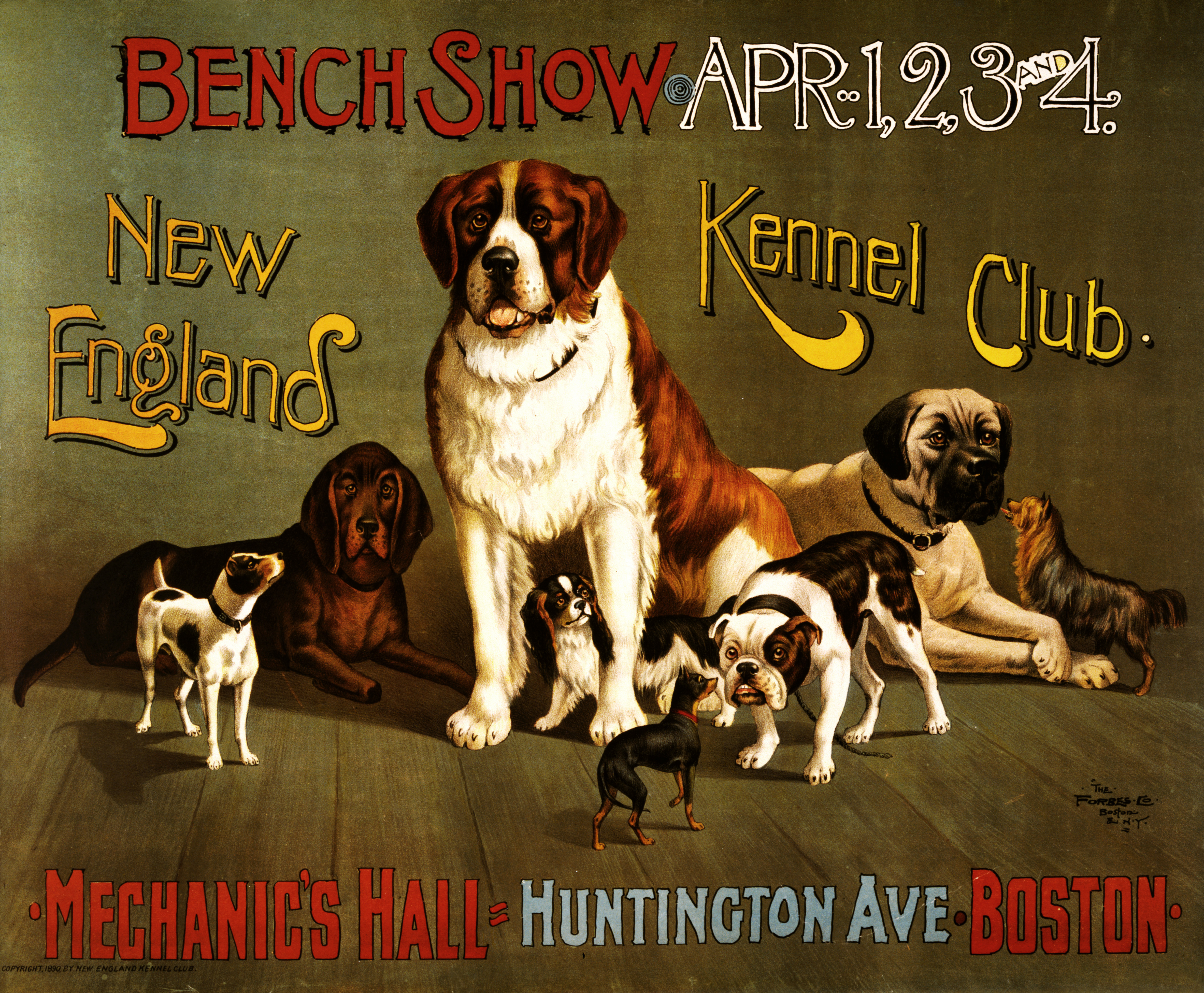 Bench show, April 1, 2, 3 and 4. New England Kennel Club. Mechanic's Hall, Huntington Ave., Boston. Poster showing a variety of dogs at the New England Kennel Club's dog show.